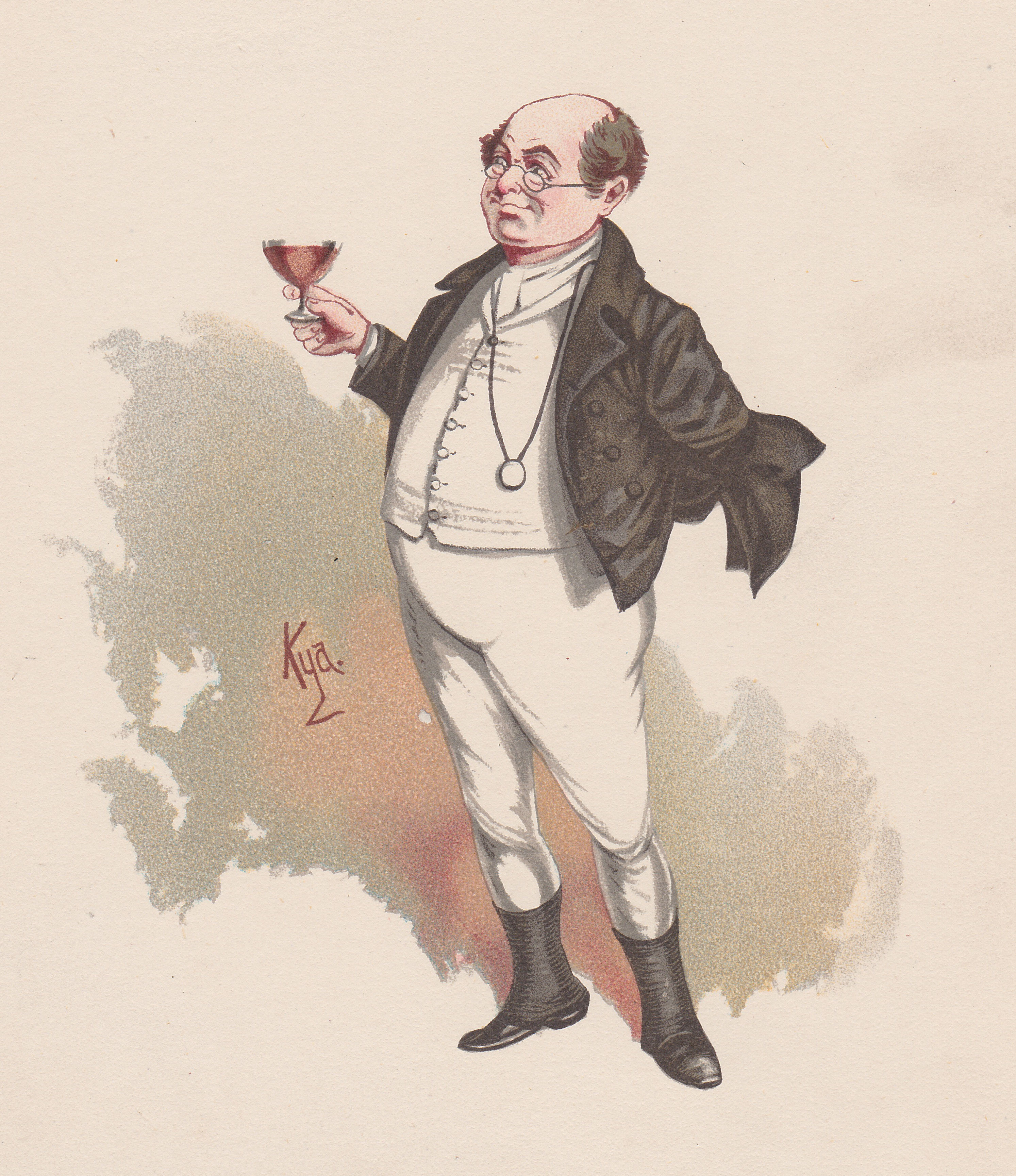 Watercolour of Mr. Pickwick from The Pickwick Papers by 'Kyd'